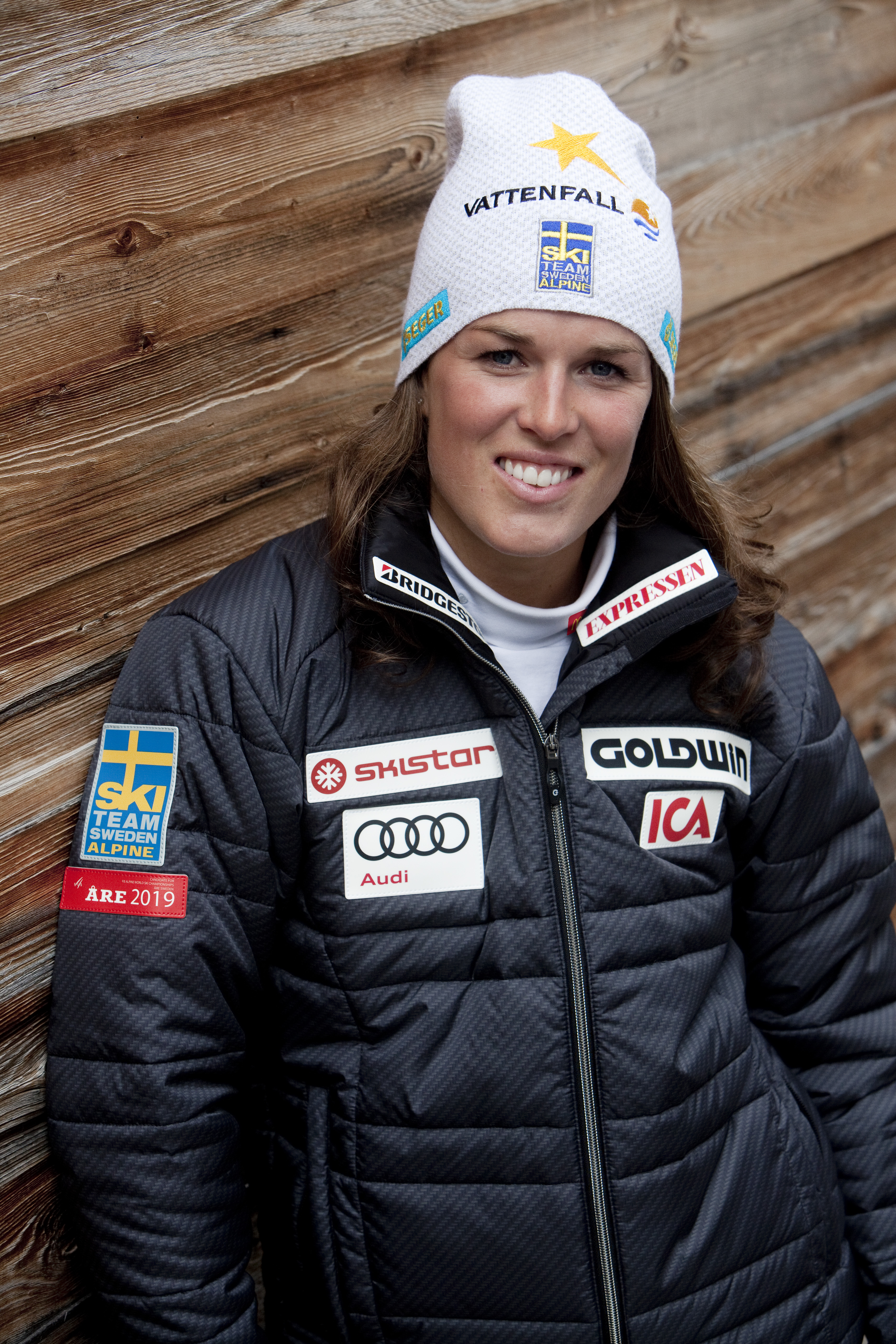 Swedish alpine skier Maria Pietilä Holmner.